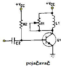 Pojacavac1